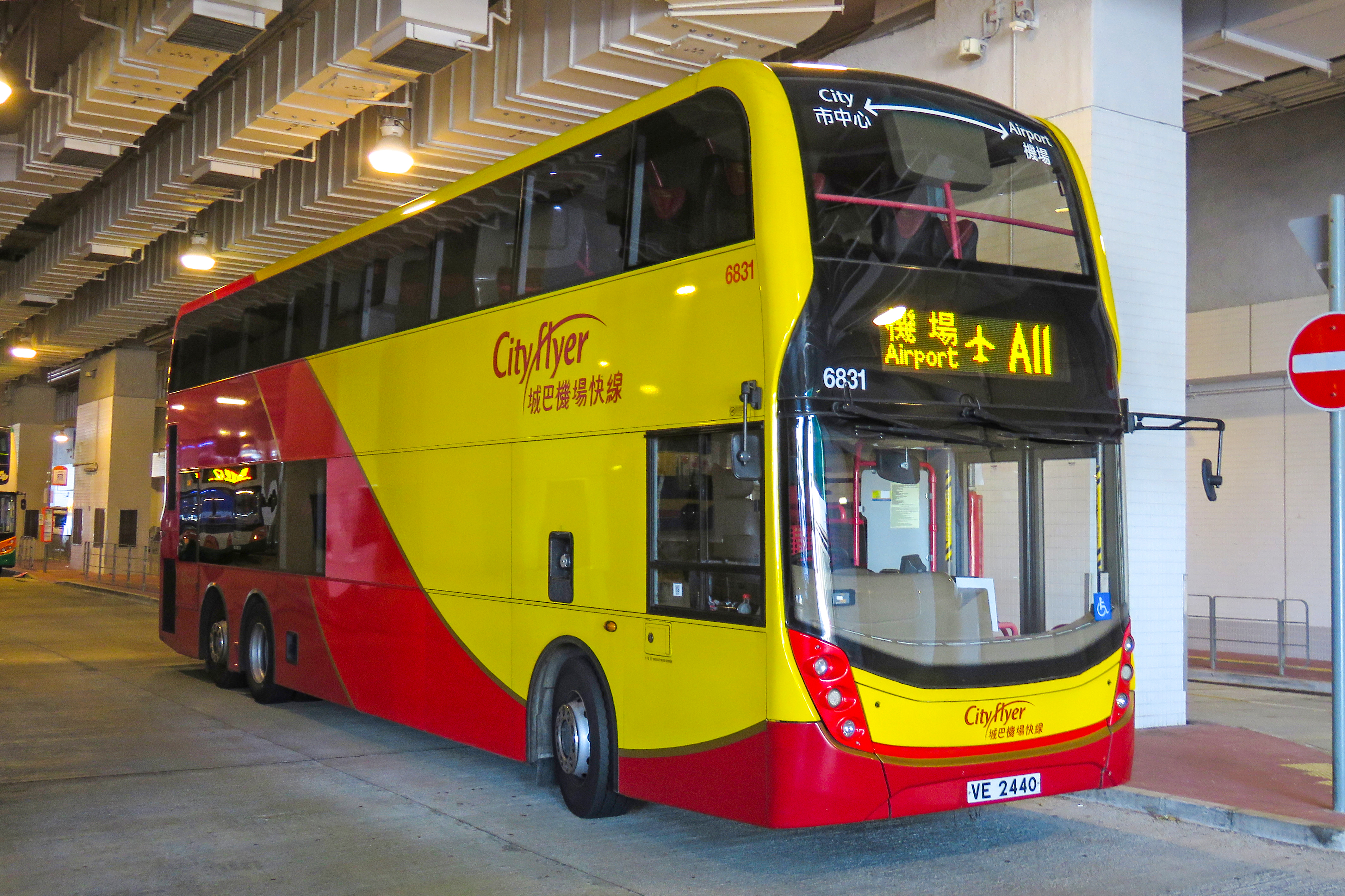 Still can't capture the 684x.